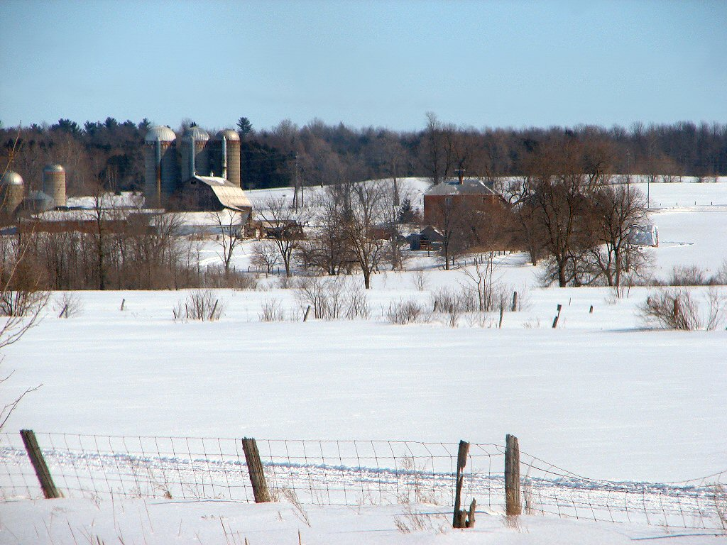 Countryside of Champlain Township, Ontario, Canada